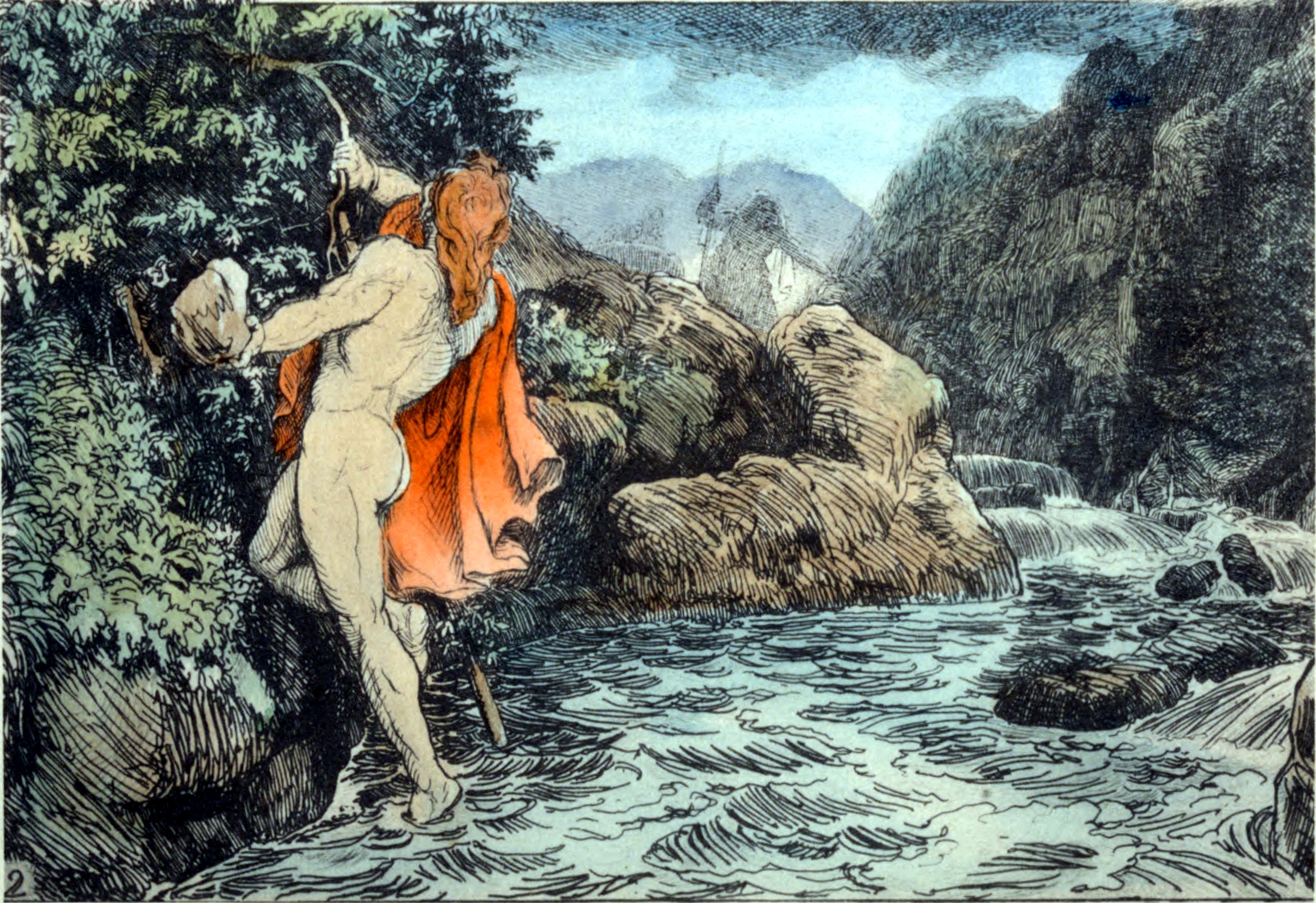 Thor's Journey to Geirrodsgard. Þórr is travelling to Geirröðargarðar as described in Þórsdrápa and Snorra-Edda. He is hanging by a rowan tree while preparing to throw a rock at the giantess upstream.